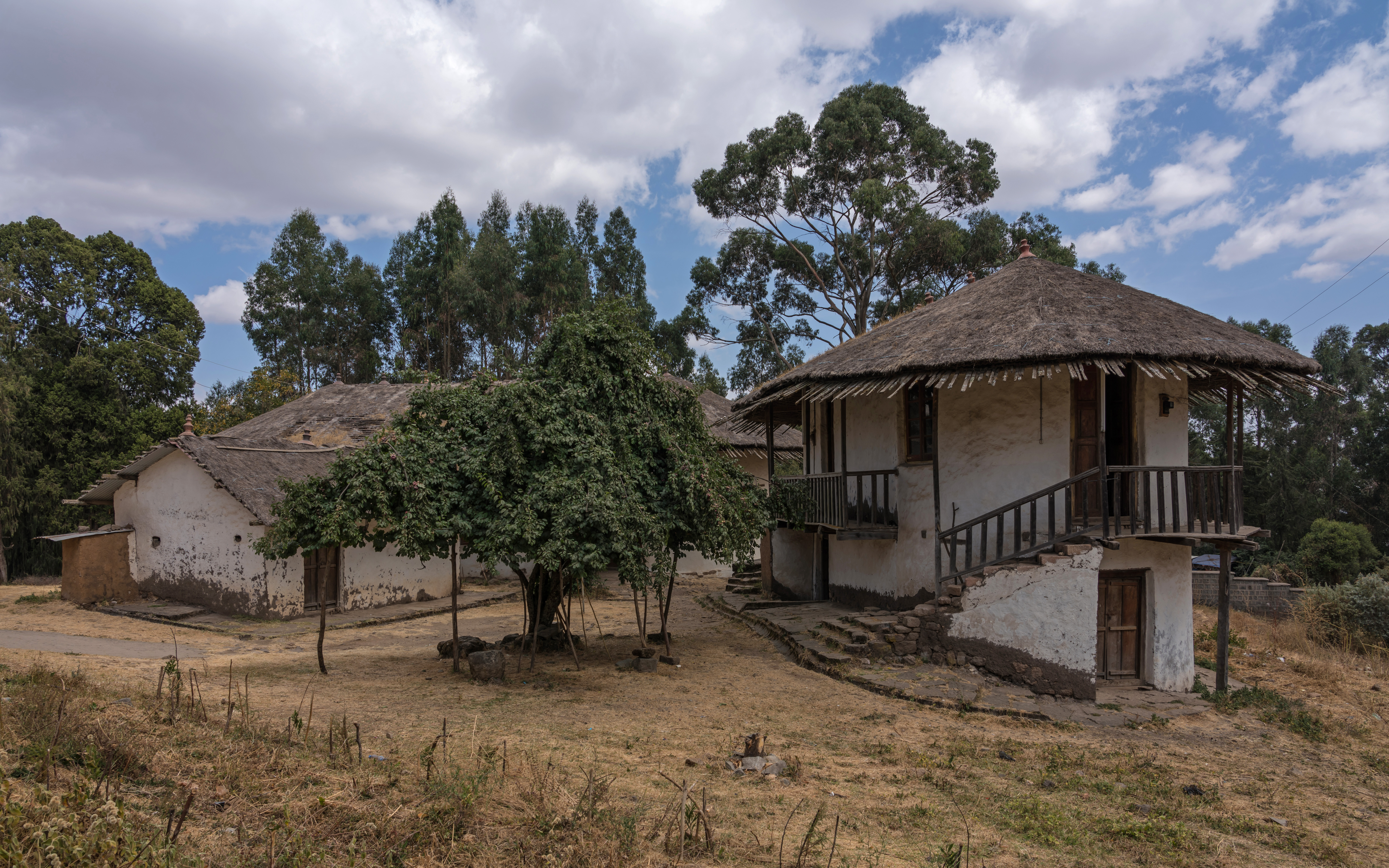 General view – Palace complex on Entoto Mountain in Addis Ababa, Ethiopia